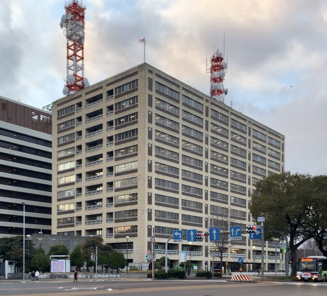 2020年2月10日17:05